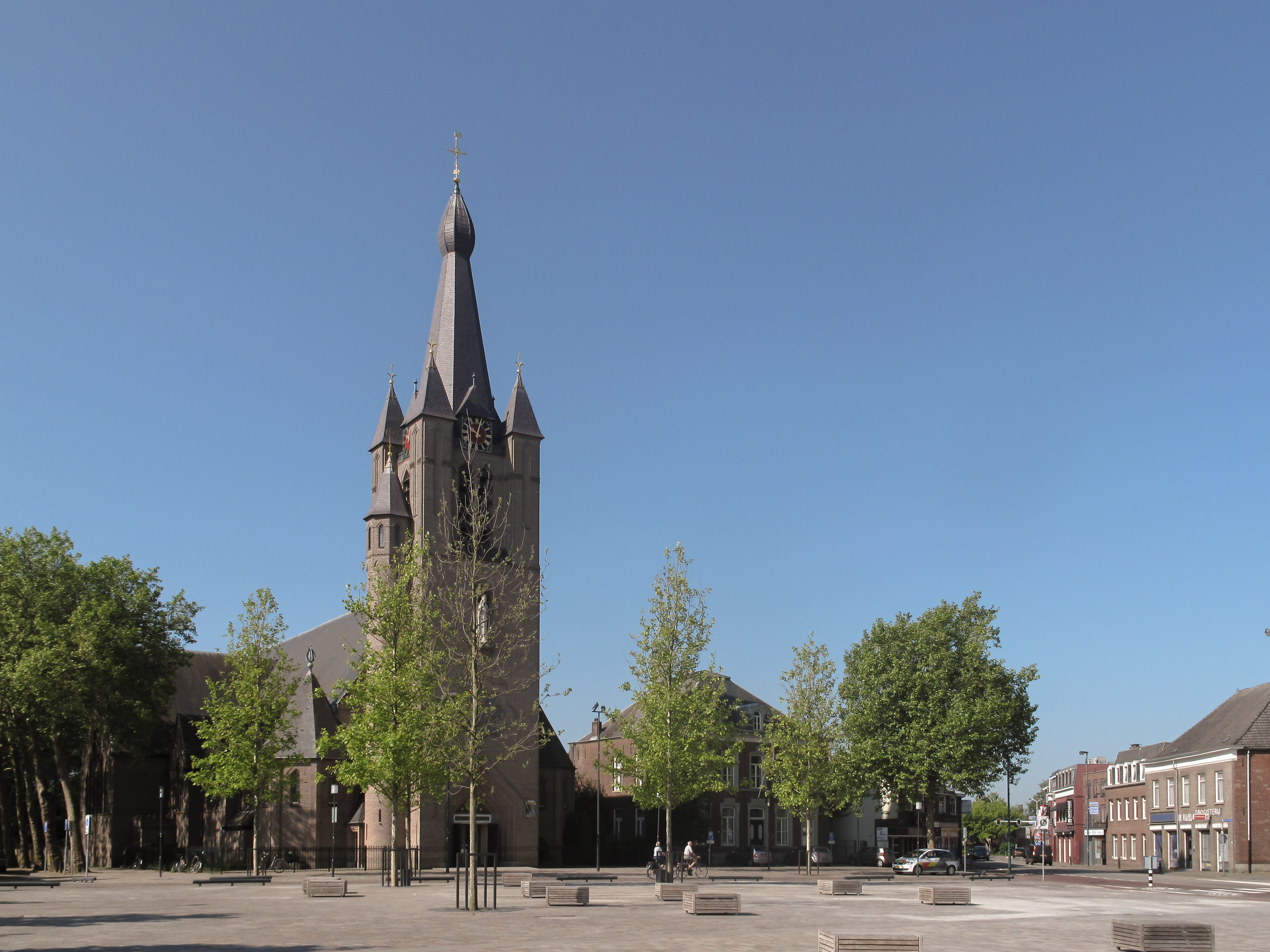 Valkenswaard, church: de Sint Nicolaaskerk